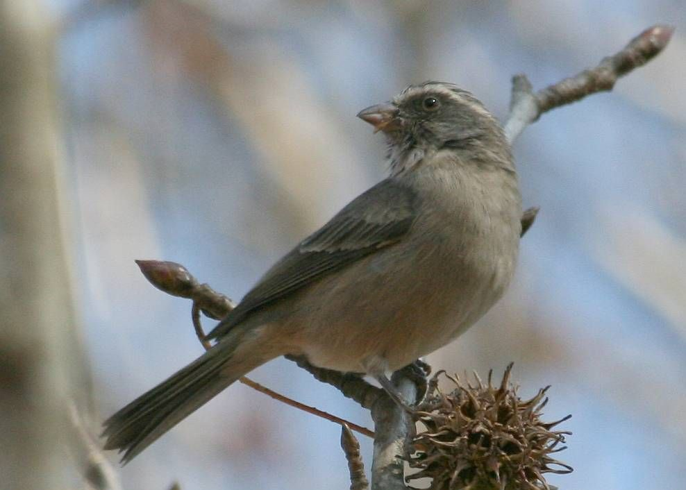 Streaky-headed Canary at Cedara Farm, Pietermaritzburg, South Africa For more information on this species